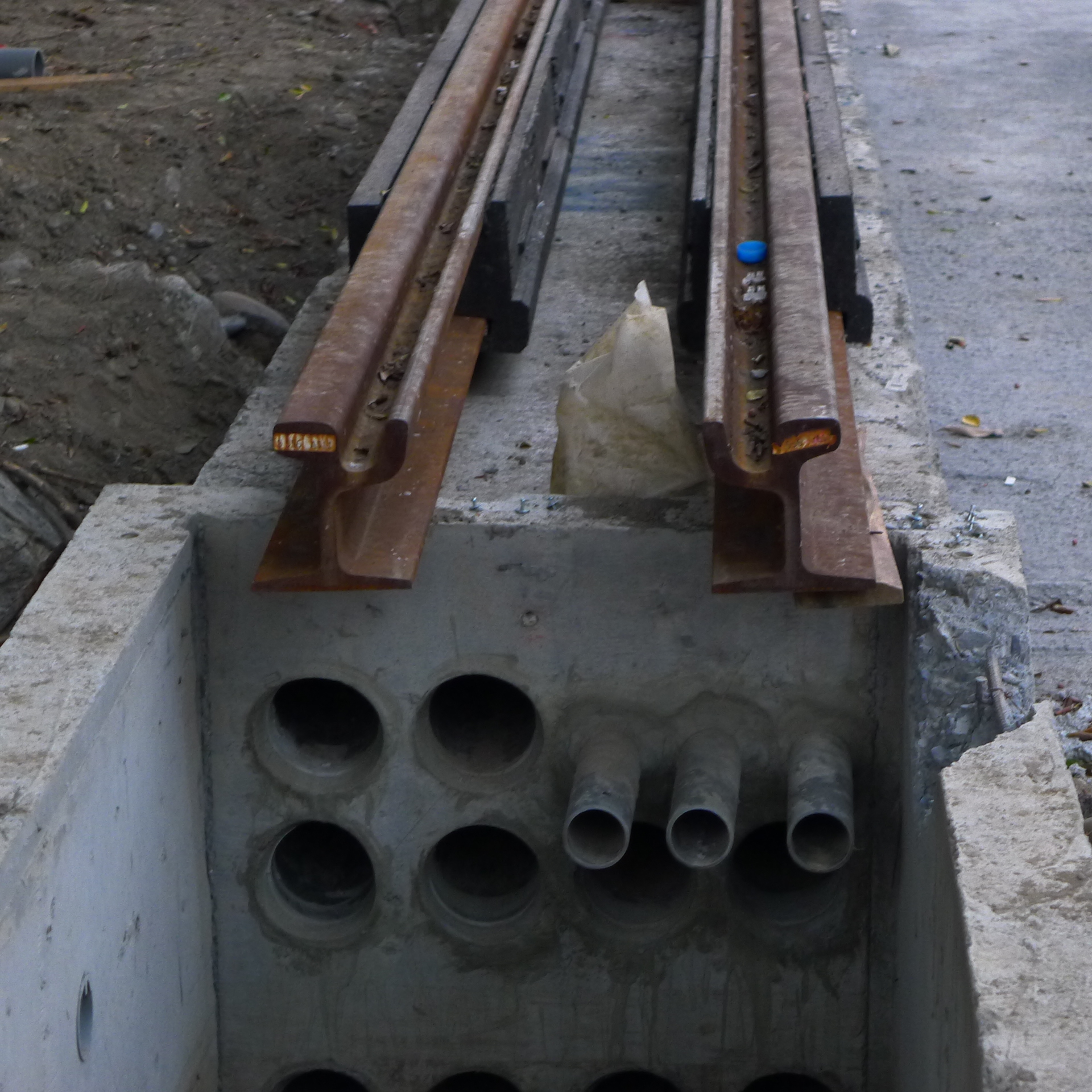 Cross-sections of the rails used in KMRT Circular Line